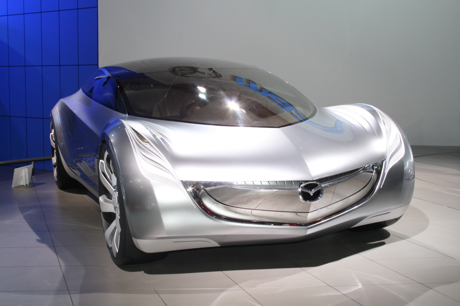 Mazda NAGARE in Tokyo motor show